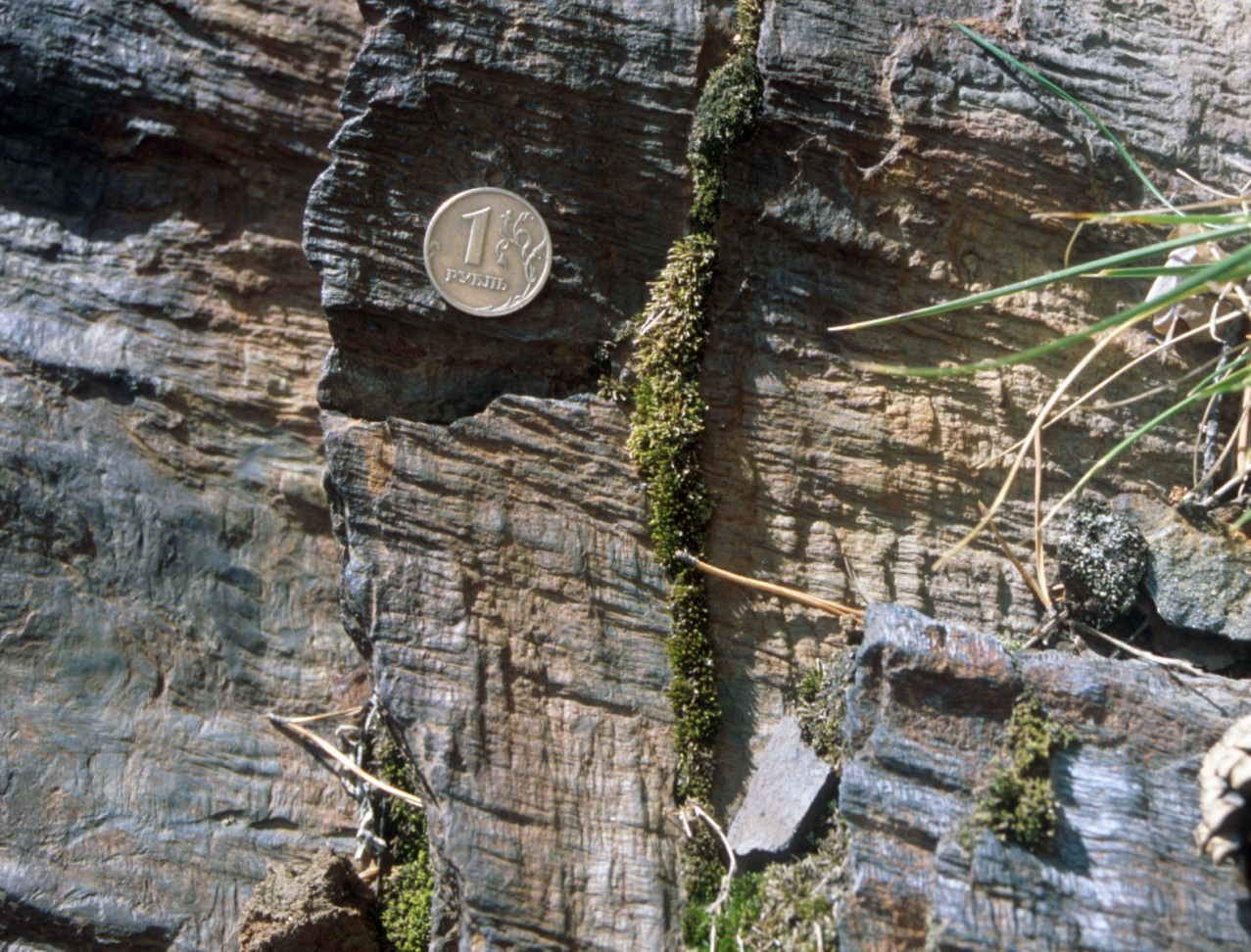 Two almost perpendicular sets of crenulation lineations on a slaty cleavage. Nura River valley, southern Ural Mountains